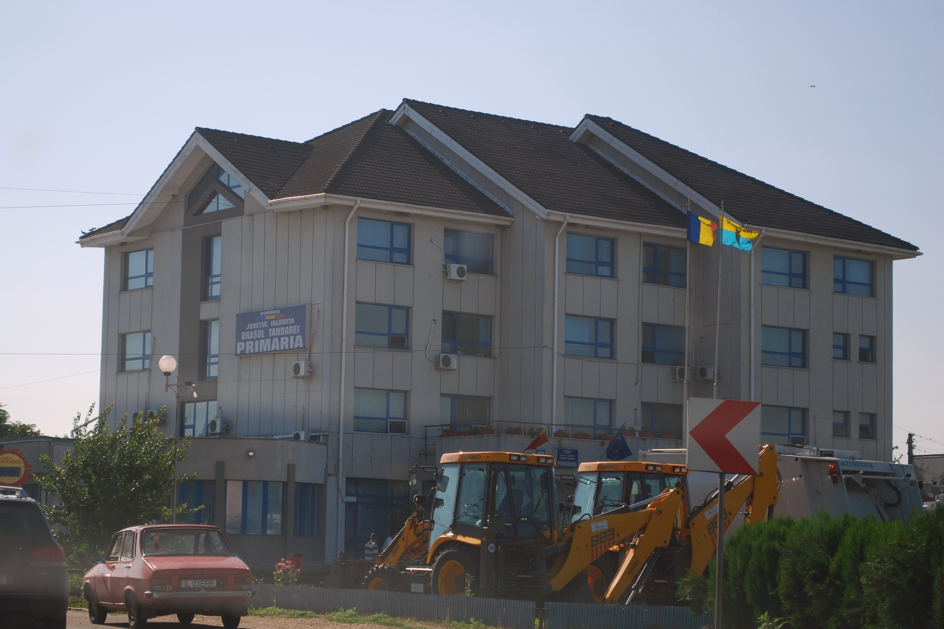 Ţăndărei, Ialomiţa County, Romania: town hall